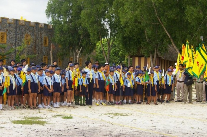 Cub uniform at Vietnam